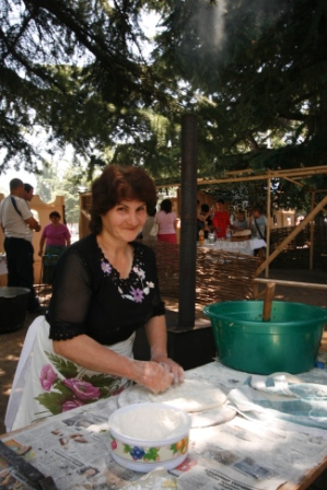 A South Ossetian woman